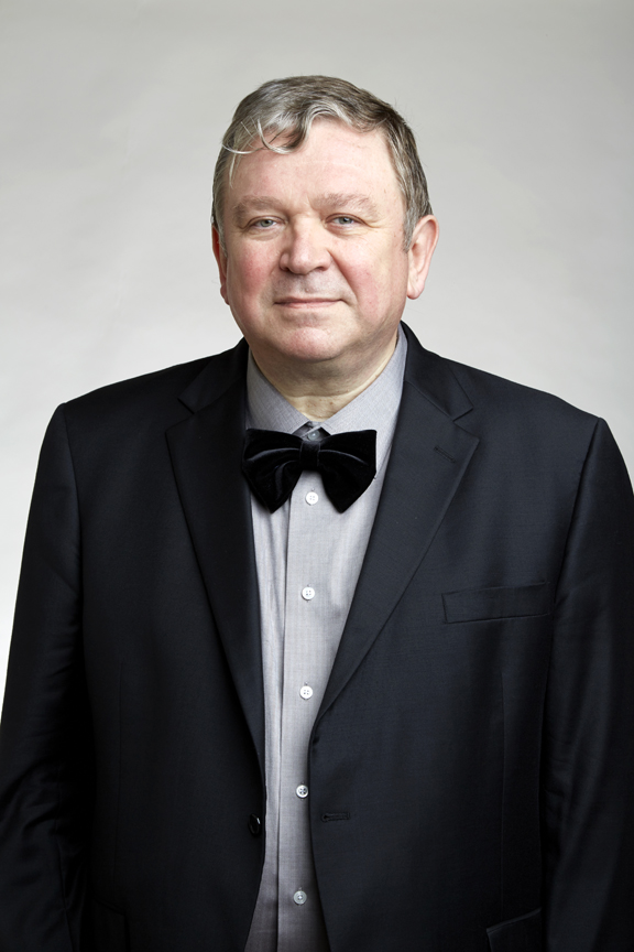 Nikolay Zheludev is a British scientist specializing in nanophotonics, metamaterials,nanotechnology, electrodynamics, and nonlinear optics Attribution: The Royal Society